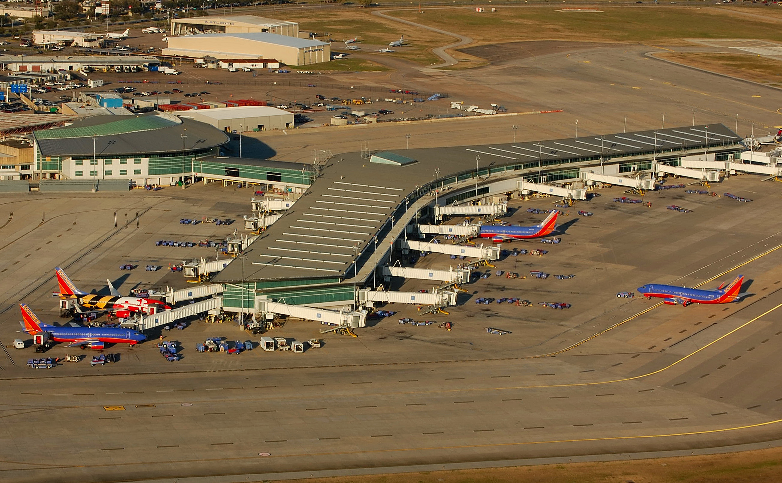 Aerial view of William P. Hobby Airport Terminal & Central Concourse